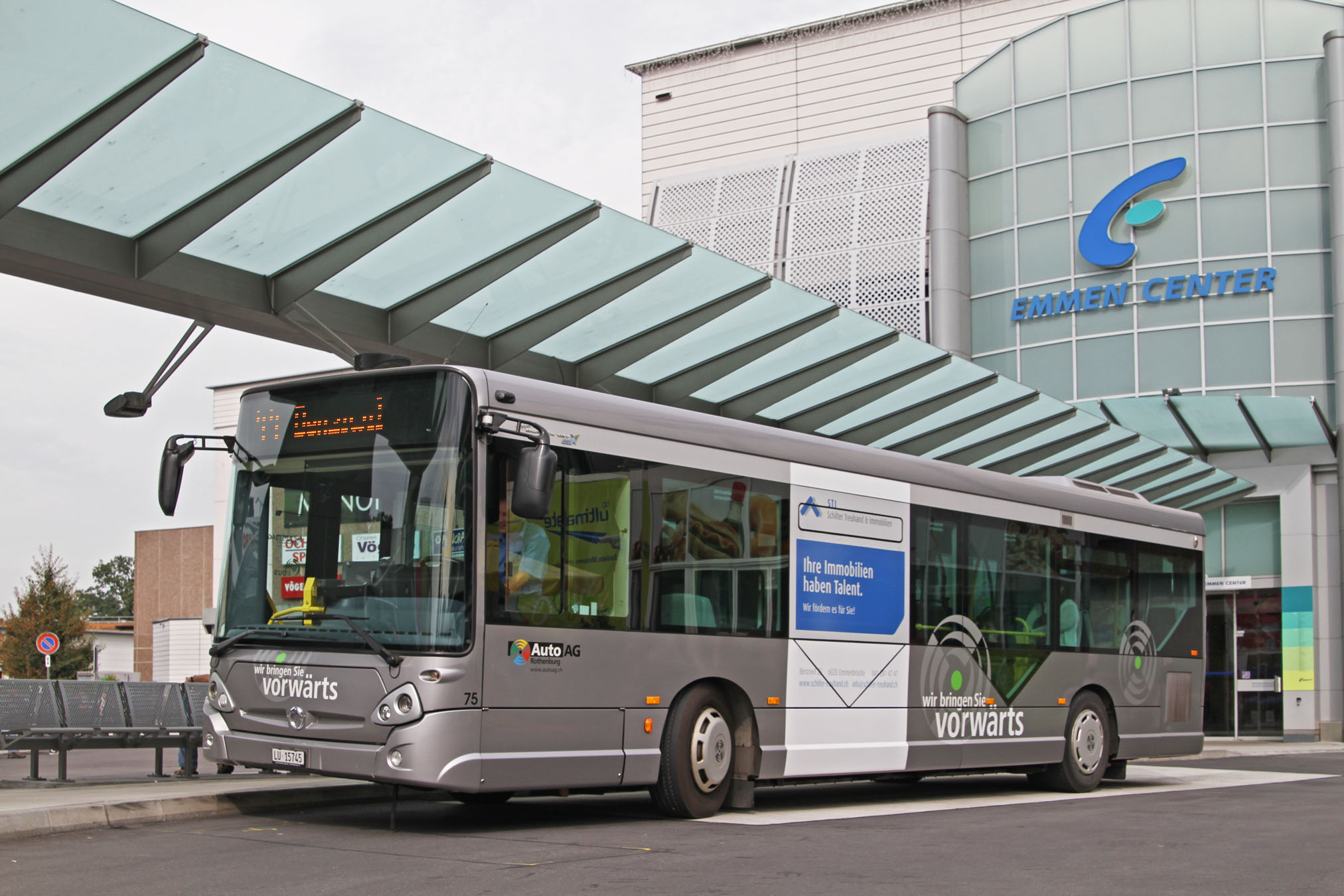 Auto AG Rothenburg's Heuliez GX 127 N° 75 at the busstop of the mall Emmen Center